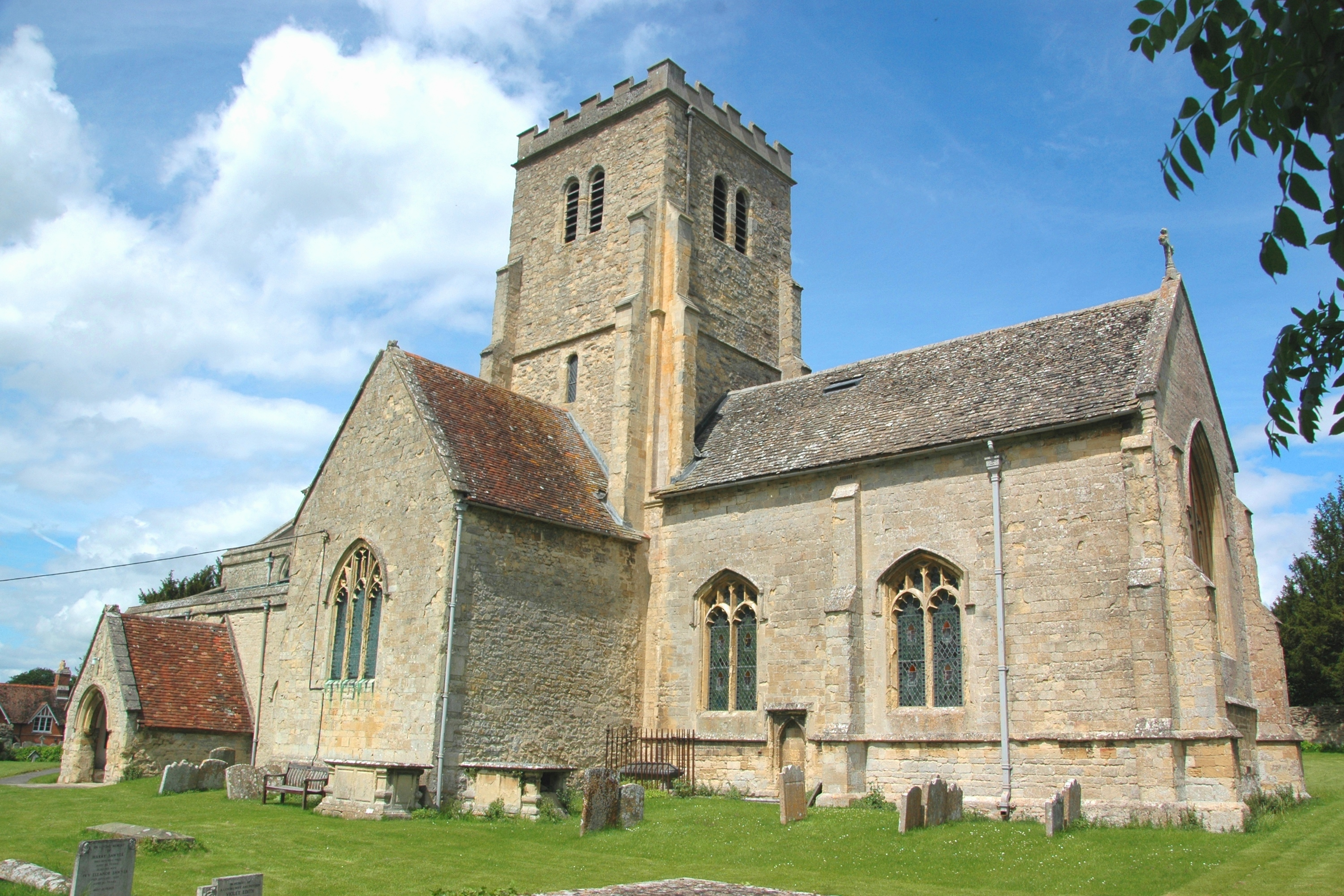 Church of England parish church of All Saints, Cuddesdon, Oxfordshire, seen from the southeast, showing the 15th-century chancel (right)